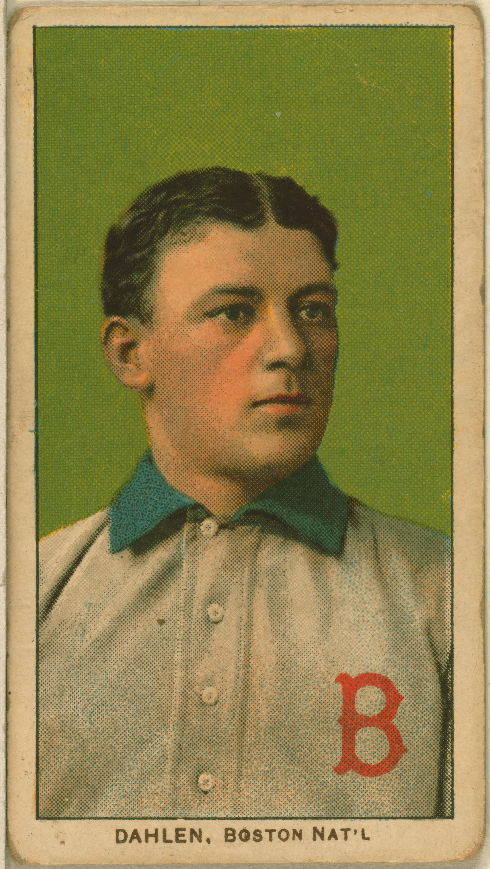 Bill Dahlen of the Boston Doves baseball team. T206 White Borders.